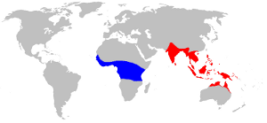 Oecophylla range map. Oecophylla longinoda in blue, Oecophylla smaragdina in red. Note: I cannot find the source of this map, but it is out of date as Oecophylla longinoda is common in Kwa-Zulu Natal. Charles (talk) 10:48, 15 September 2016 (UTC)